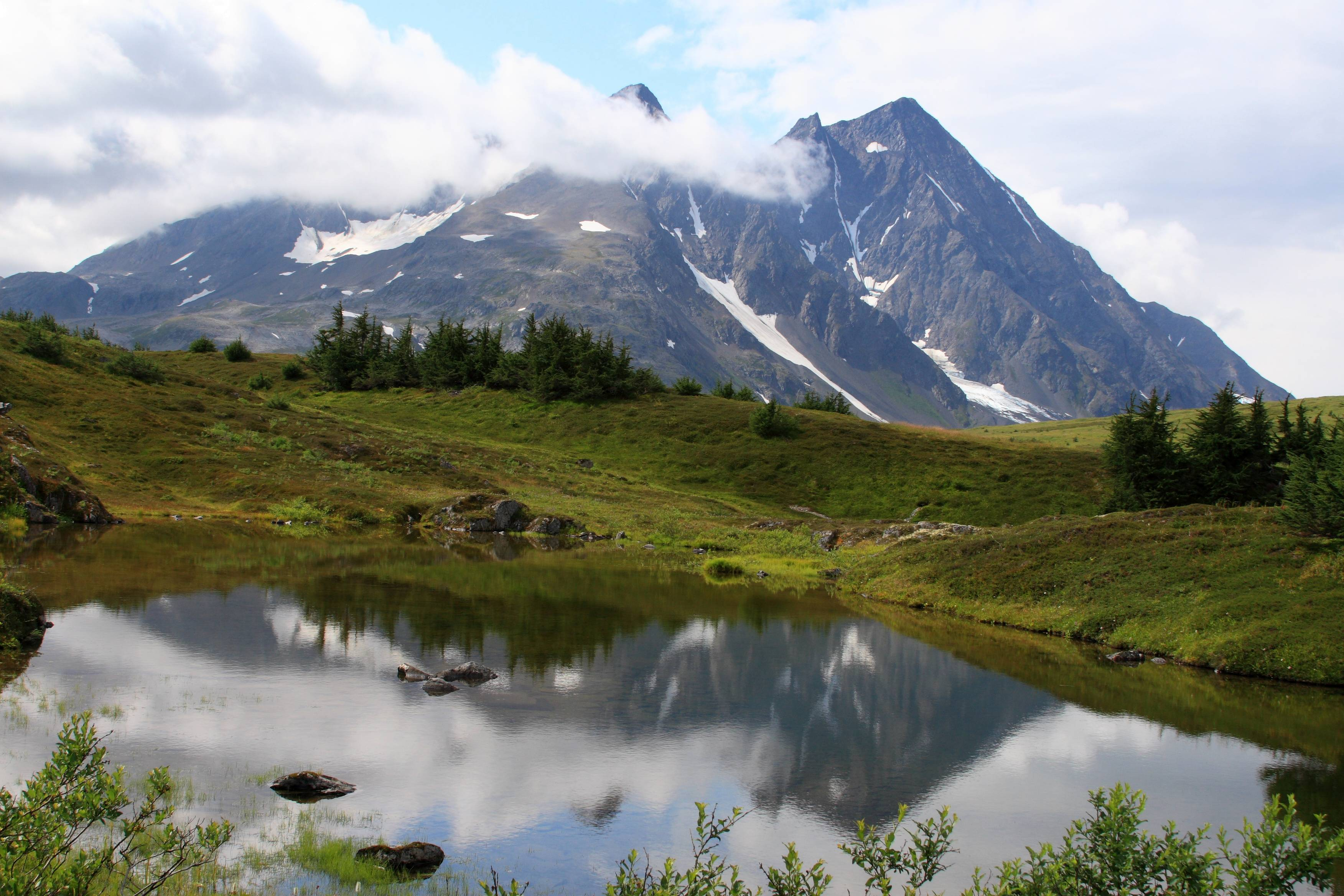 I took these photos in August 2009 during a hike to Lost Lake. This is an excellent but long trail outside of Seward, Alaska. We did a traverse, starting on the north side and exiting from the south side. It was still about 15 miles long with a bit of a climb on the way in. The day started off rainy and gray but got a lot better as we kept climbing. One of the major benefits was all the ripe blueberries on the trail - and they were so sweet - just like me! The only drawback was I left my graduated neutral density filter at home - sure could have used it on this trip with the bright hazy sky - oh well, there is always next year!